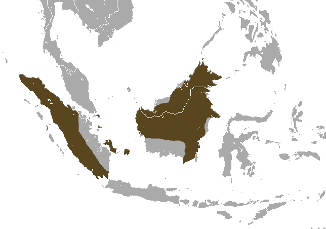 Large Treeshrew (Tupaia tana) range